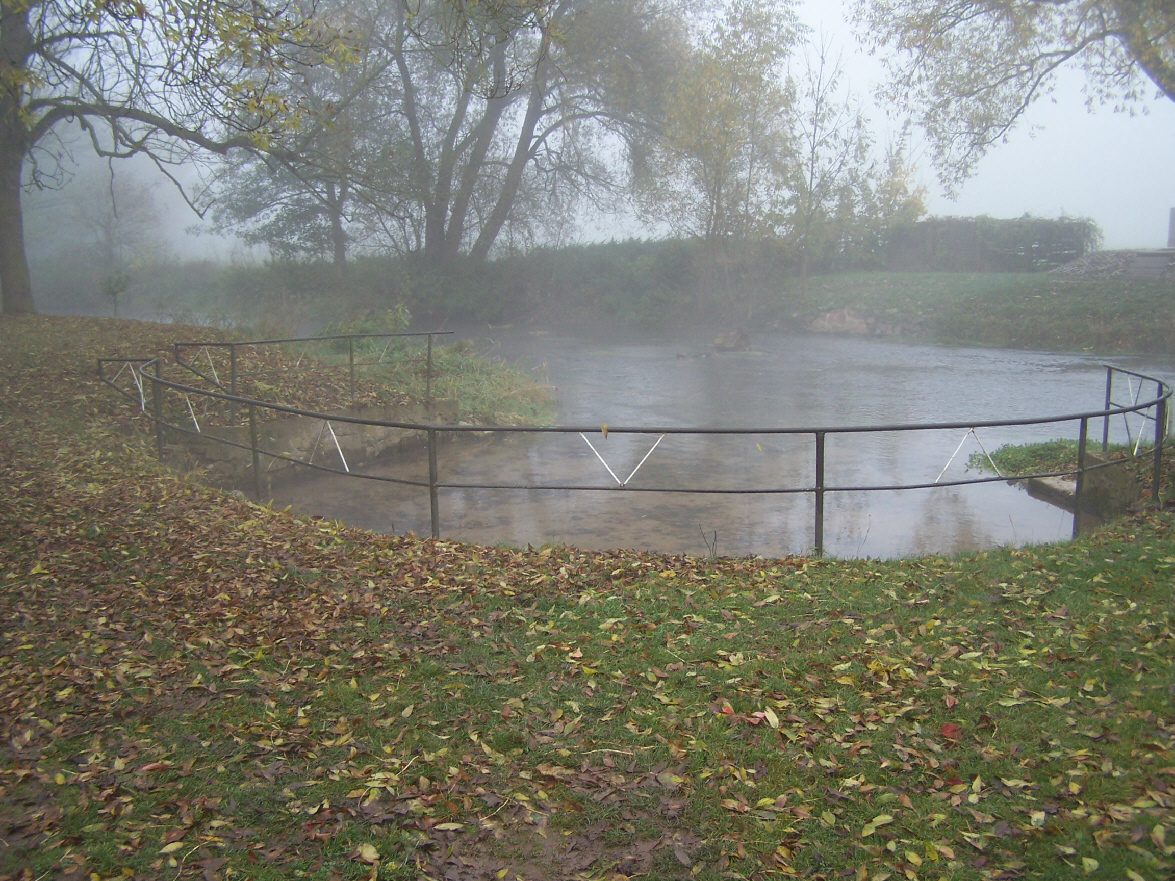 The spring in Ettenhausen/Nesse.